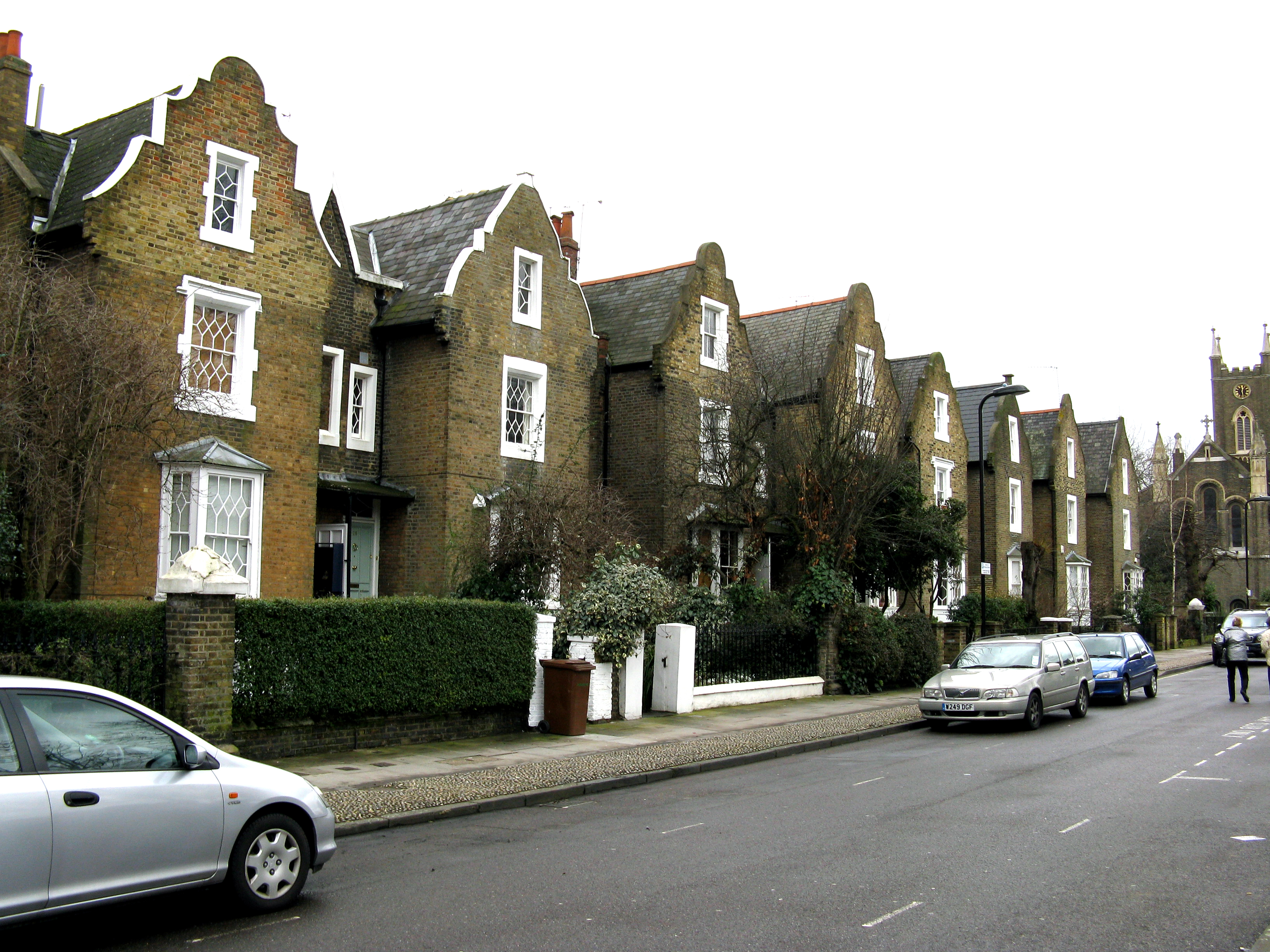 De Beauvoir Town: South side of De Beauvoir Square This is a very attractive and select area of London, where traffic-calming measures have kept out rat runners. Many of the large houses are still in single-family occupation, and all are well-maintained and neat.